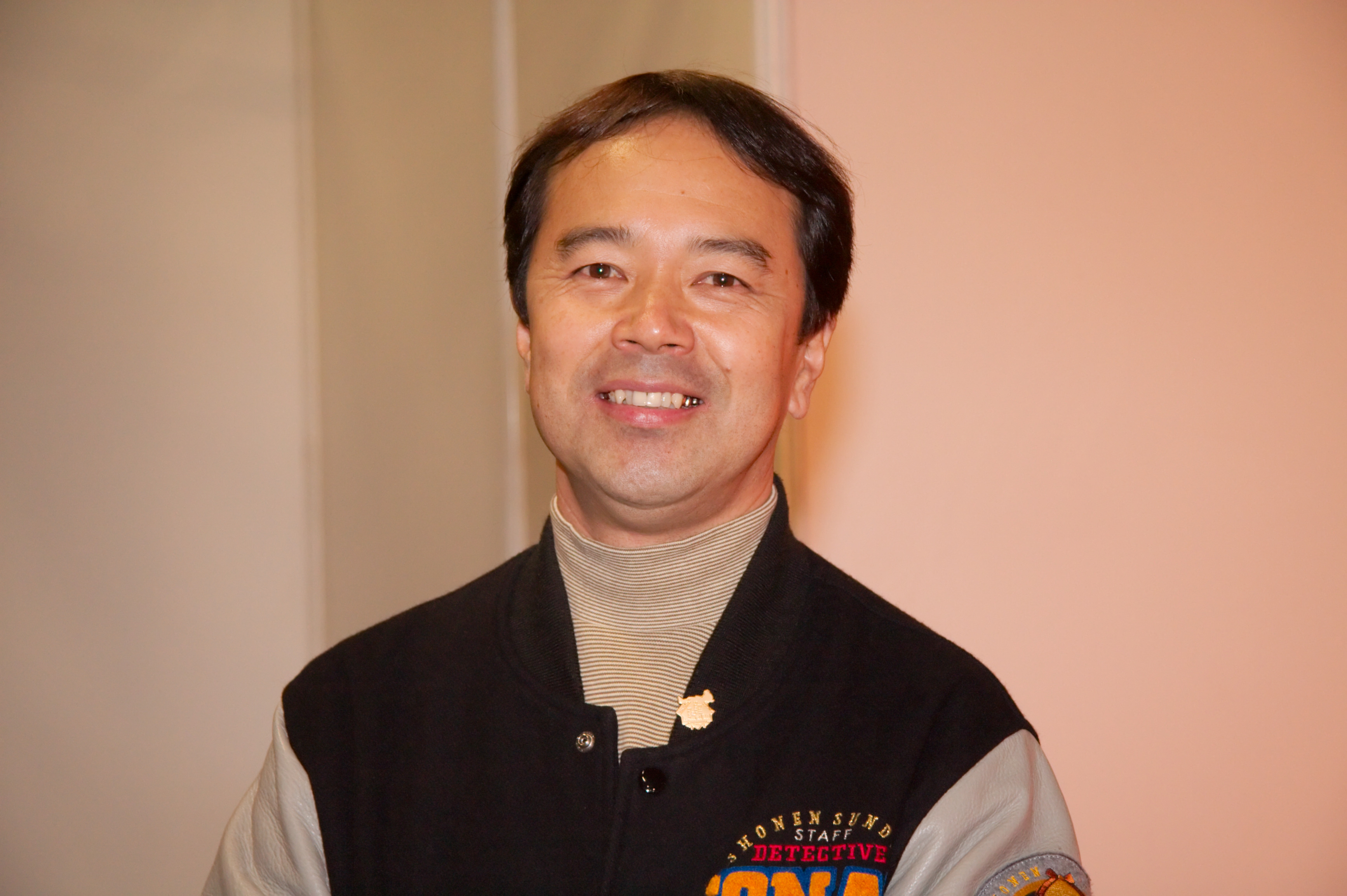 Conference with Michihiko Suwa and Takamasa Sakurai at Chibi Japan Expo 2008 (Paris, France).